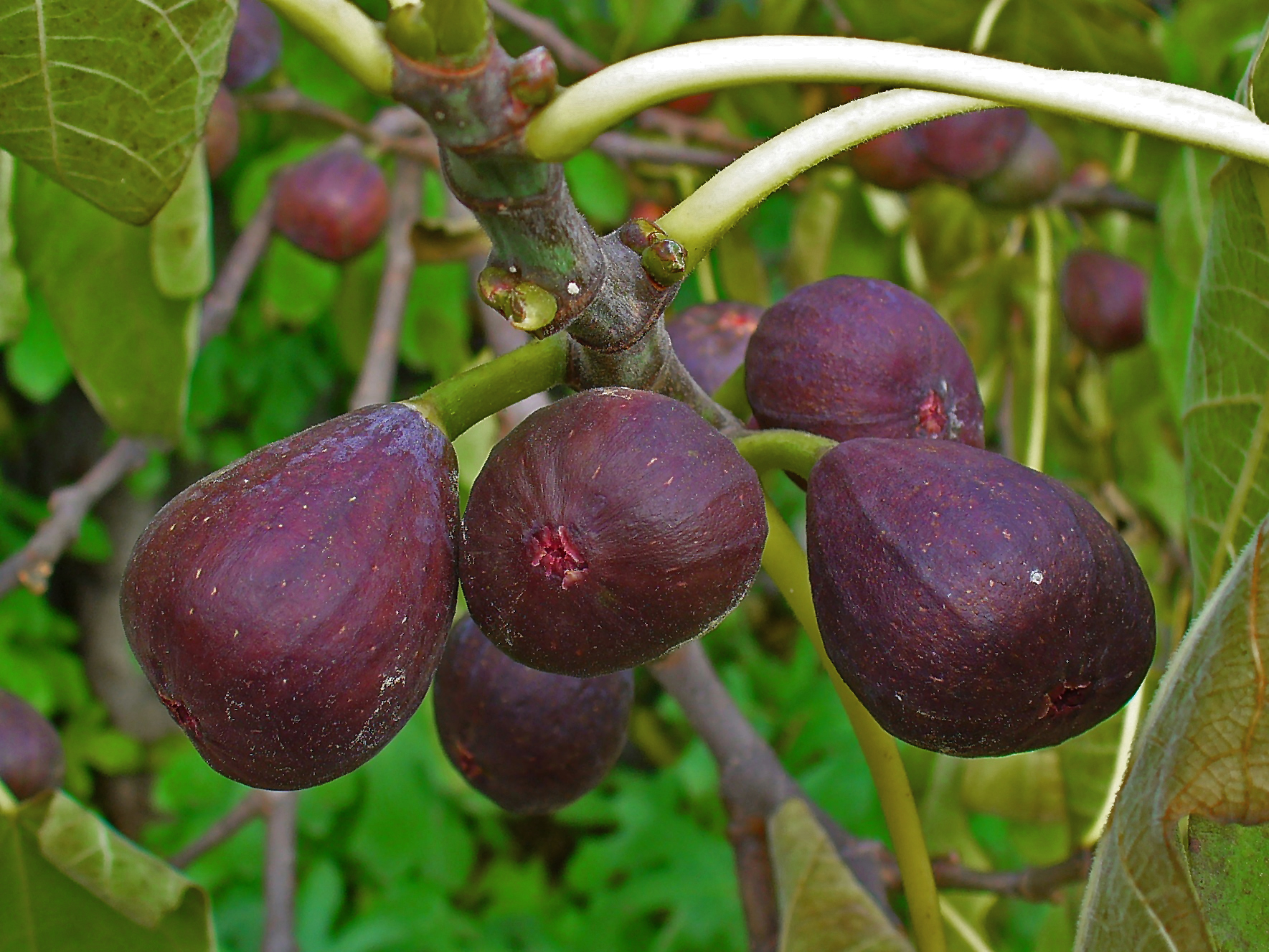 Ficus carica, Moraceae, Common Fig, infrutescences; Karlsruhe, Germany. The leaves are used in homeopathy as remedy: Ficus carica (Fic-c.)